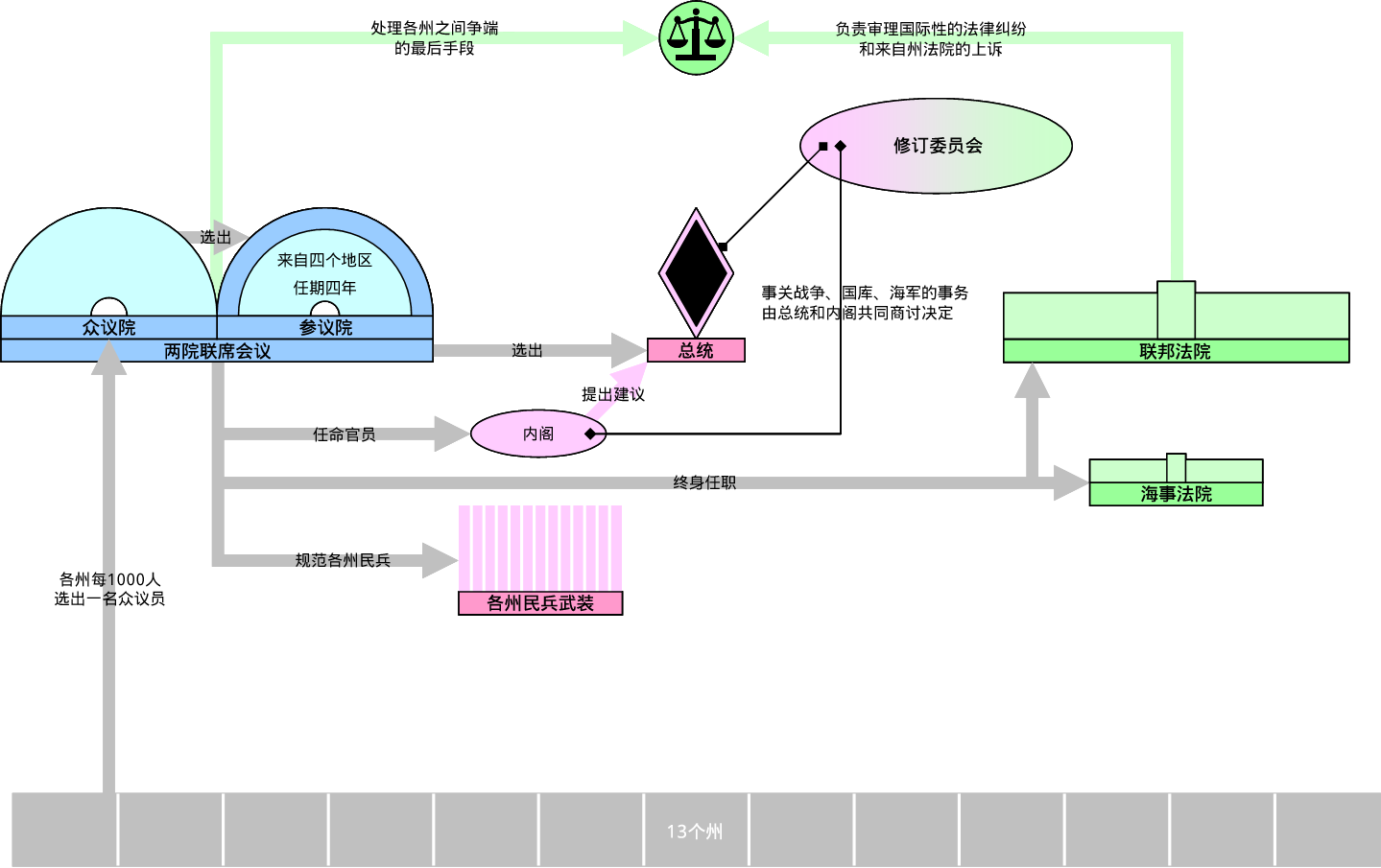 A diagram of the Pinckney Plan presented at the Constitutional Convention in the United States in 1787.